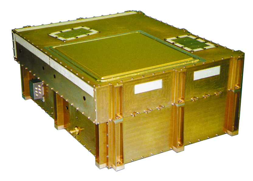 Instrument of the scientific satellite Advanced Composition Explorer. The Cosmic Ray Isotope Spectrometer (CRIS) is measuring the abundances of galactic cosmic ray isotopes, with energies from ~100 to ~600 MeV/nucleon over the element range from helium to zinc, with a collecting power more than 50 times greater than previous instruments of its kind.